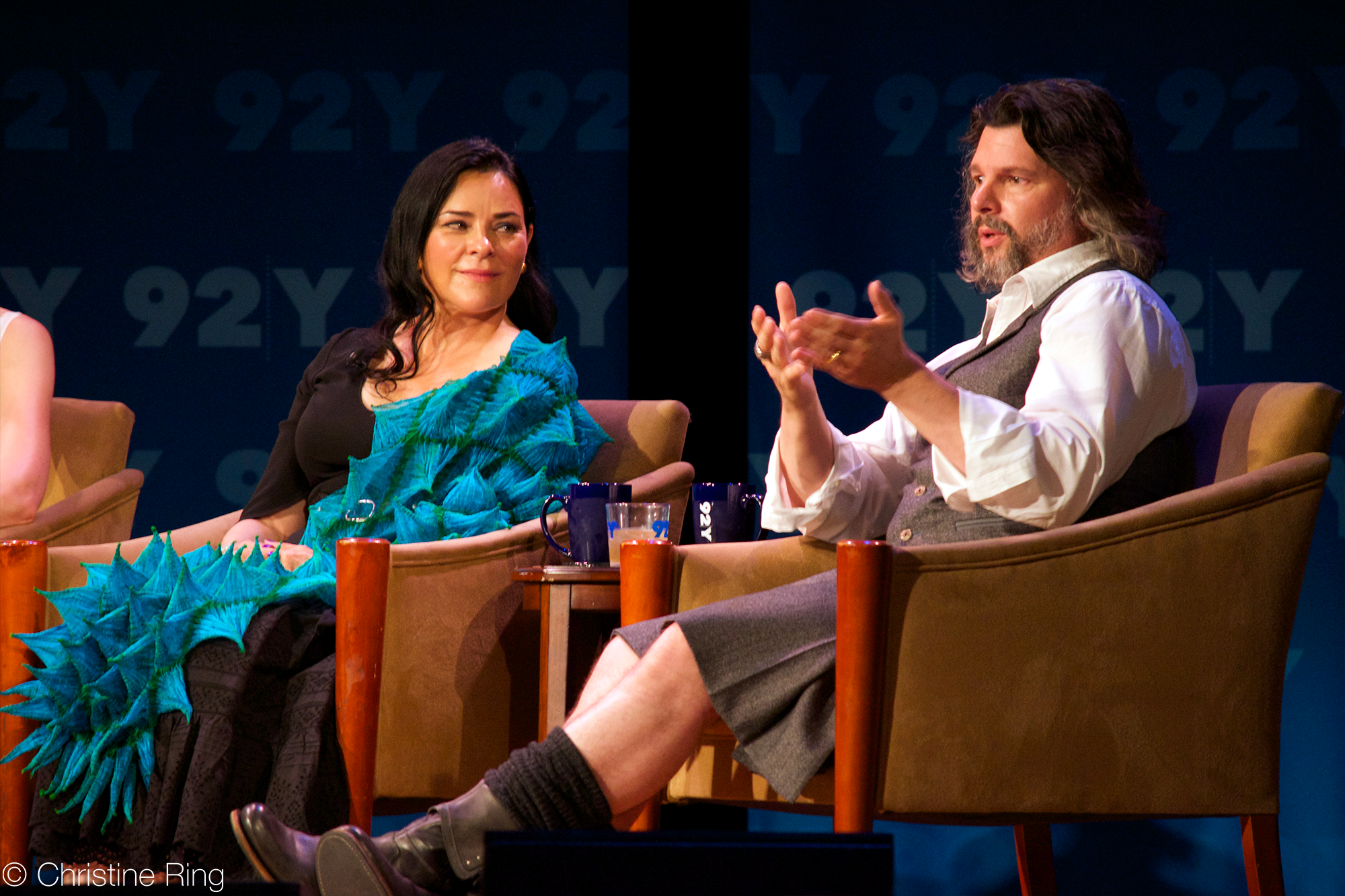 Author Diana Gabaldon and showrunner Ronald D. Moore at 92nd Street Y for the New York premiere of the first season of the TV series Outlander, which is based on Gabaldon's novel of the same title.